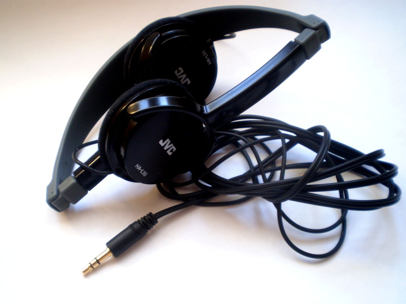 JVC headphones